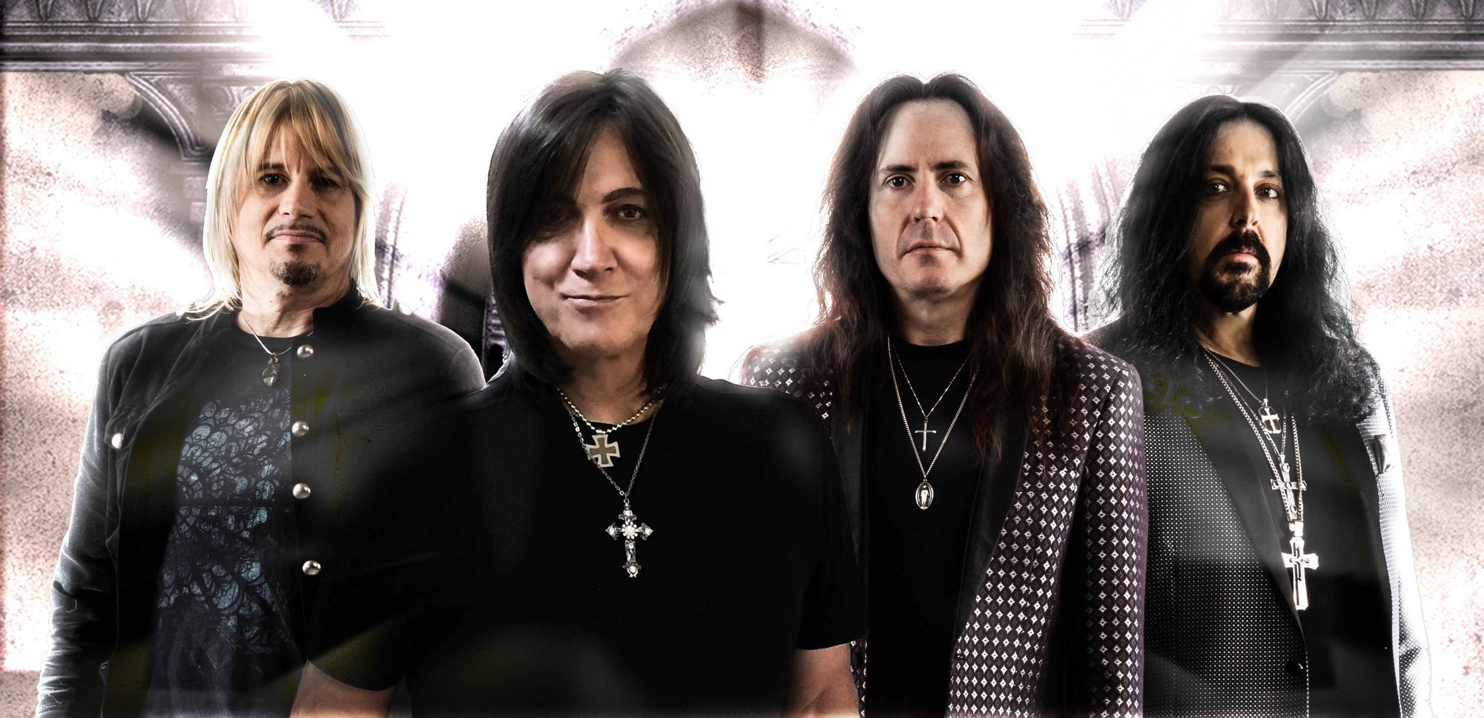 HOUSE OF LORDS - 2017 full band promo photo.